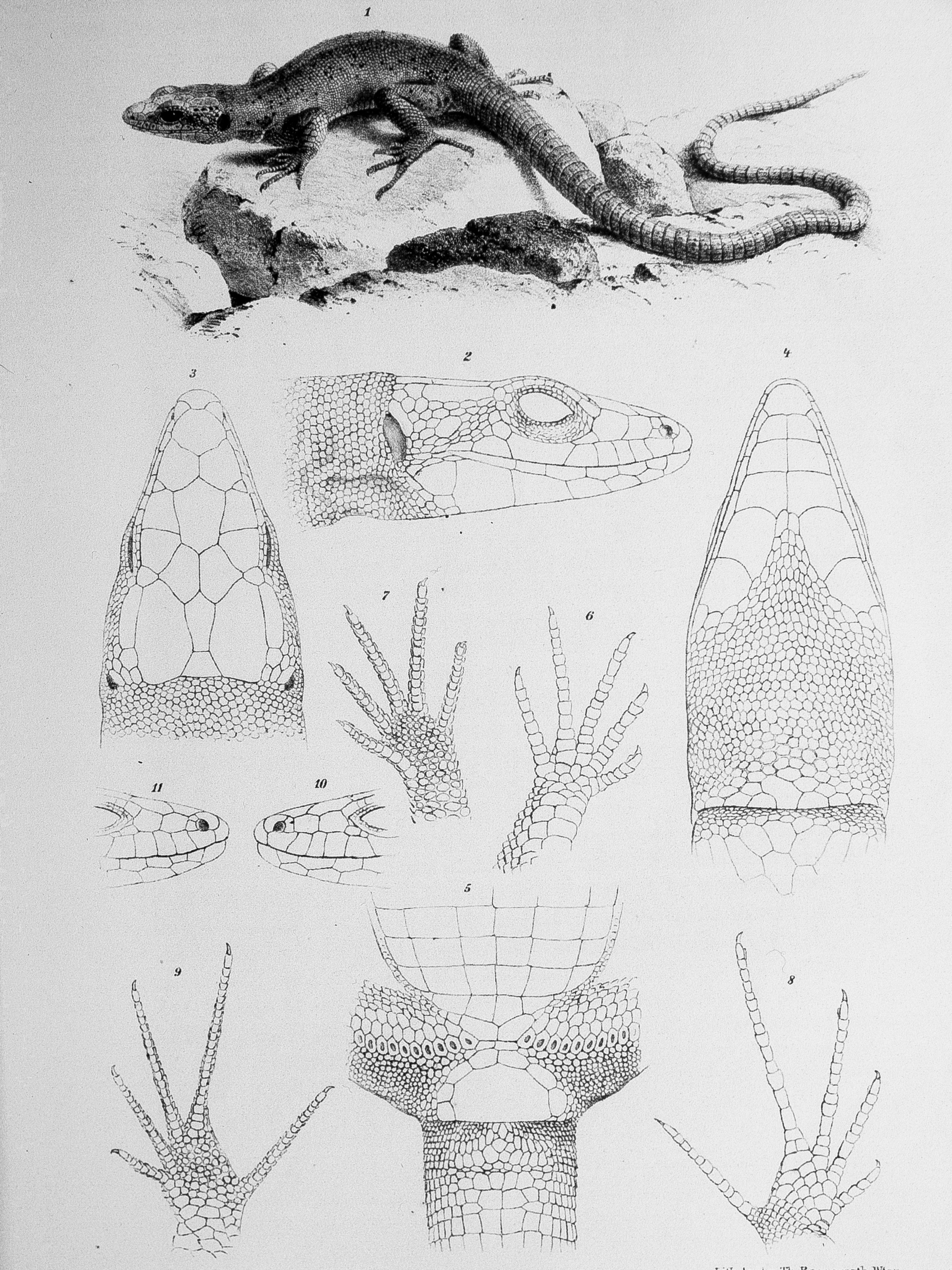 Dinarolacerta mosorensis, iconography 1892 Franz Steindacher